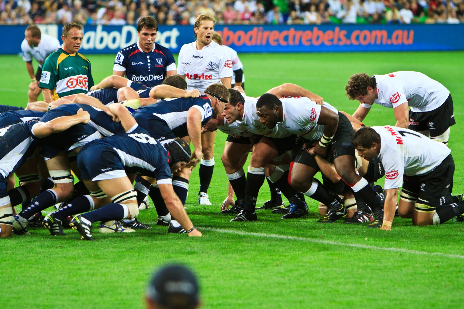 Rabodirect Rebels vs Sharks Rabodirect Rebels vs Sharks in the 2011 Super Rugby competition